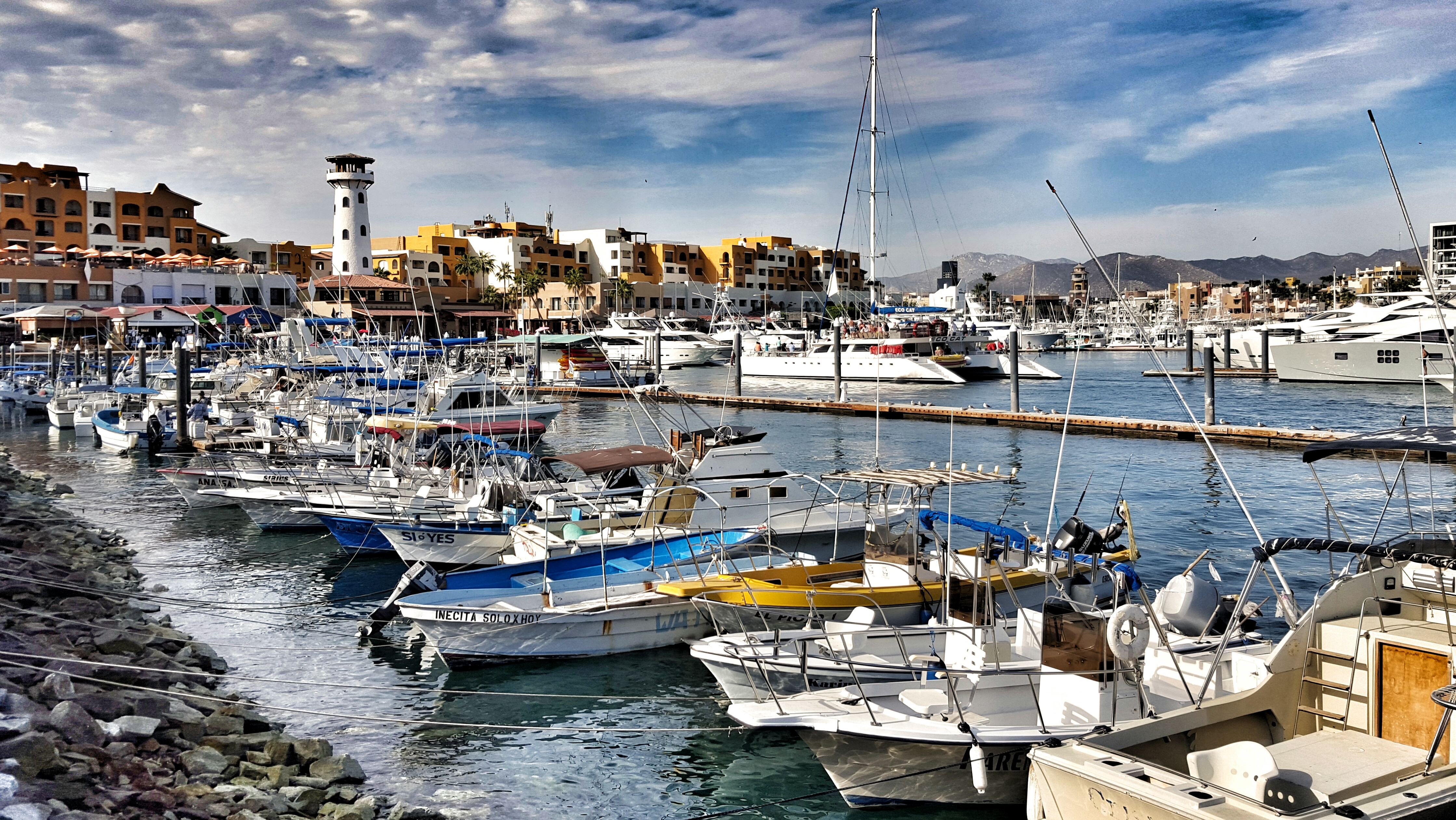 Cabo San Lucas Marina - Baja California Sur, Mexico